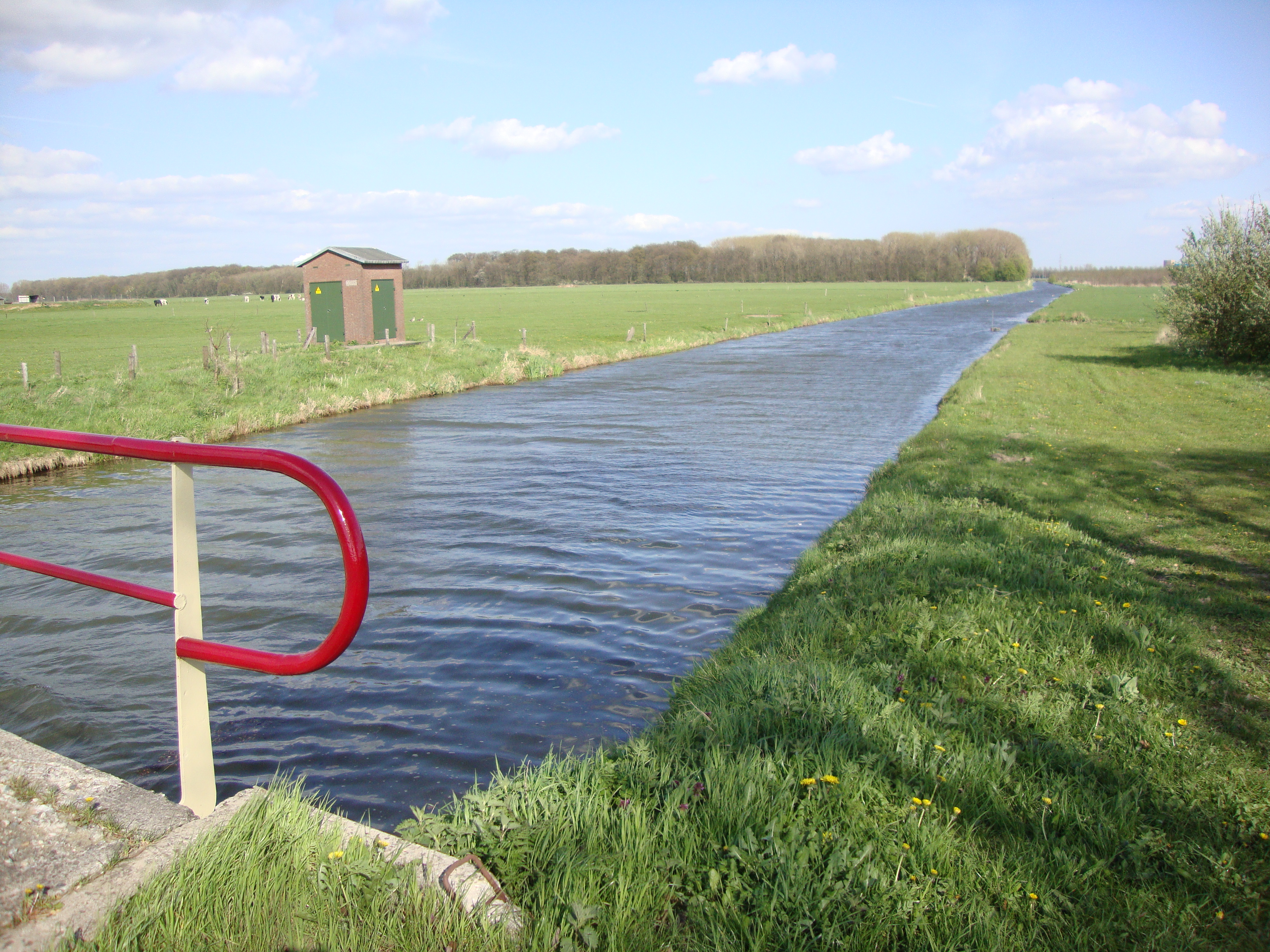 "Nieuwe Wetering" near the "Wezelsche Veld", Wijchen Gld, NL.